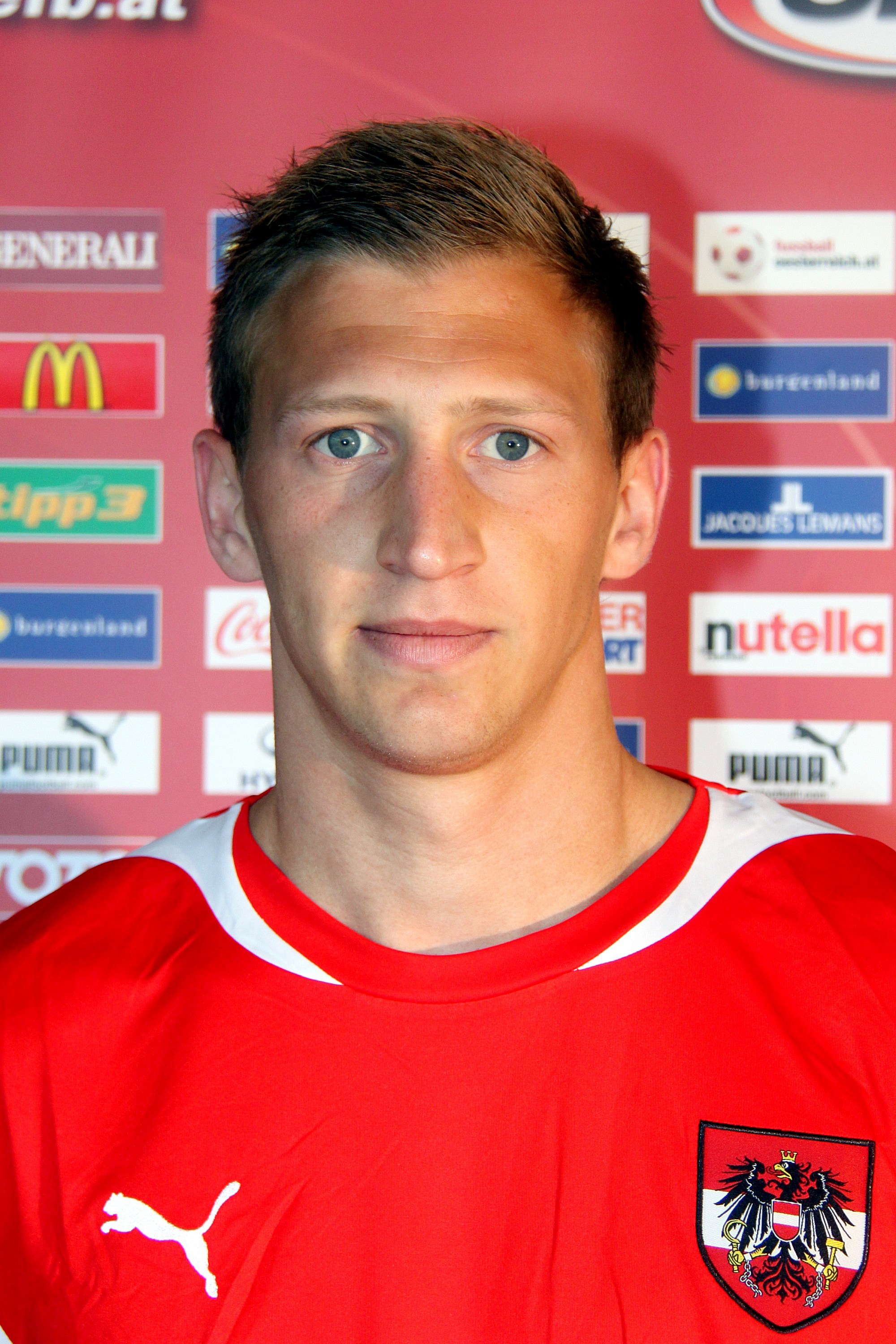 Daniel Royer (Hannover 96) - Austria national under-21 football team (age group 1990).